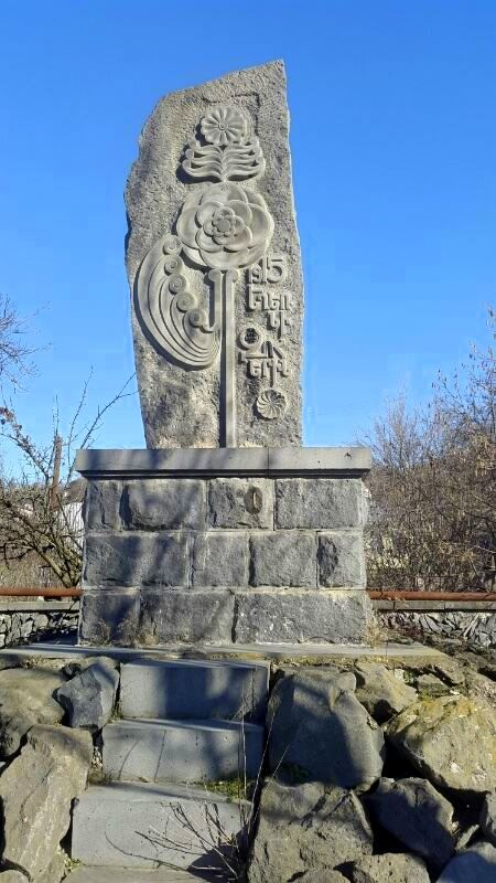 Monument to Armenian Genocide, in Shnogh Village